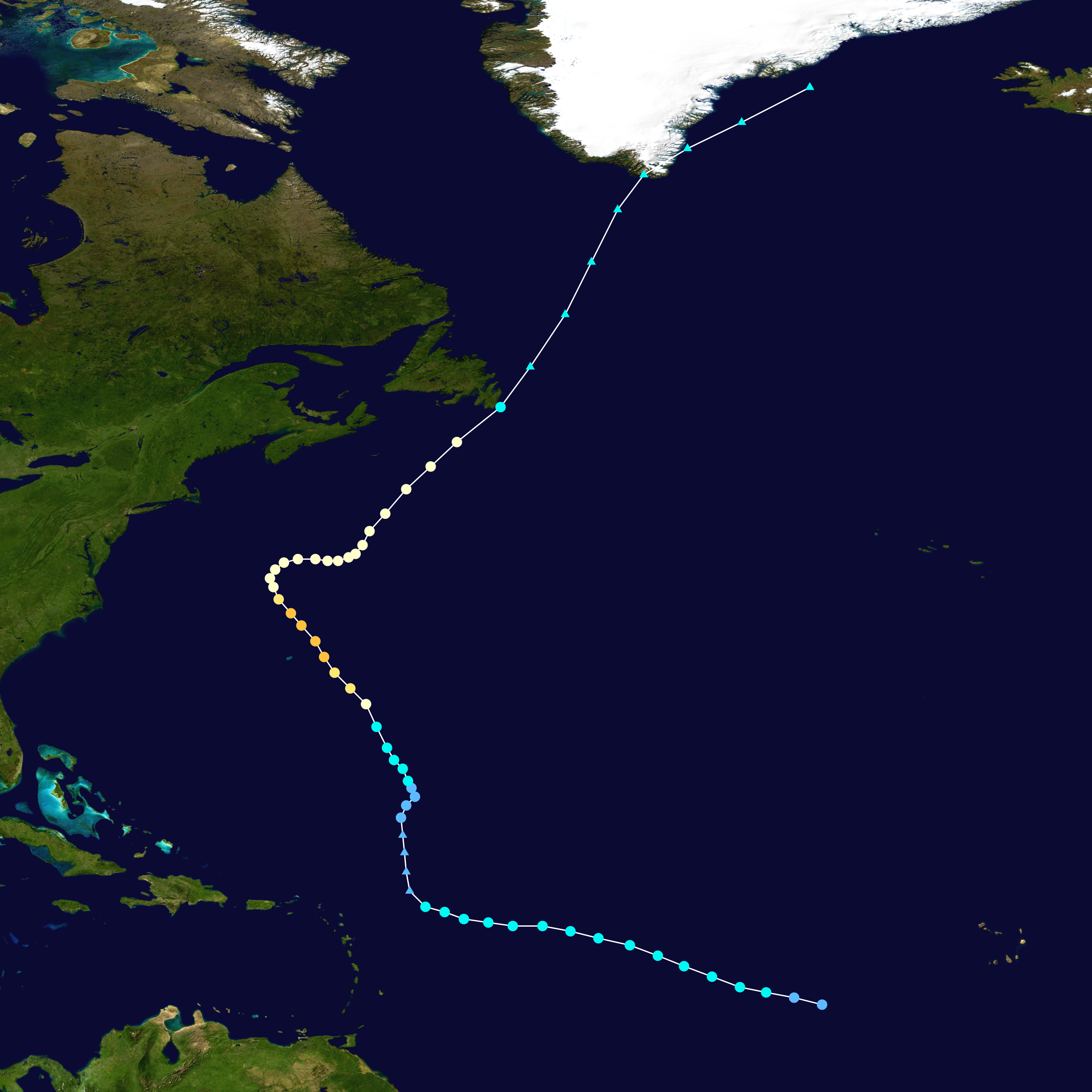 Track map of Hurricane Erin of the 2001 Atlantic hurricane season. The points show the location of the storm at 6-hour intervals. The colour represents the storm's maximum sustained wind speeds as classified in the Saffir–Simpson scale (see below), and the shape of the data points represent the nature of the storm, according to the legend below. Saffir–Simpson scale Tropical depression≤38 mph≤62 km/h Category 3111–129 mph178–208 km/h Tropical storm39–73 mph63–118 km/h Category 4130–156 mph209–251 km/h Category 174–95 mph119–153 km/h Category 5≥157 mph≥252 km/h Category 296–110 mph154–177 km/h Unknown Storm type Tropical cyclone Subtropical cyclone Extratropical cyclone / Remnant low / Tropical disturbance / Monsoon depression